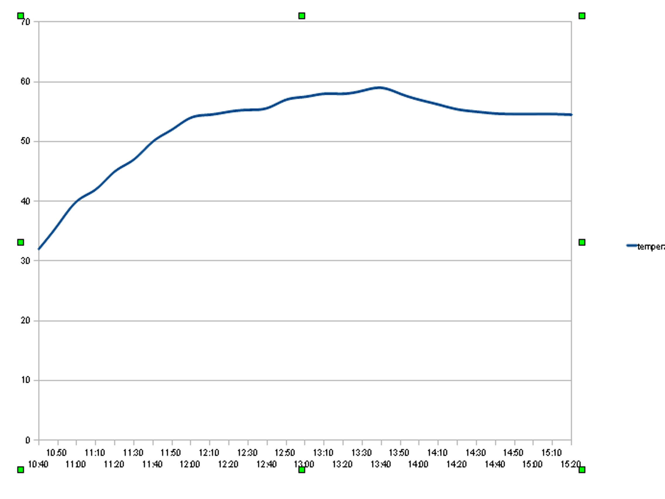 relationship between sun exposure and water temperature in Solar Water Disinfection (SODIS) . based on data from B. Sommer, A Marino, Y. Solarte, C. Dierolf, C. Valiente, D. Mora, R. Rechsteiner, P. Setter, W. Wiorojanagud, A.Ajarmeh, A. Al-Hassan, M. Wegelin, SODIS An emerging water tretment process, J Water SRT-Aqua, Vol.46, N. 3, pag. 1287-137, 1997